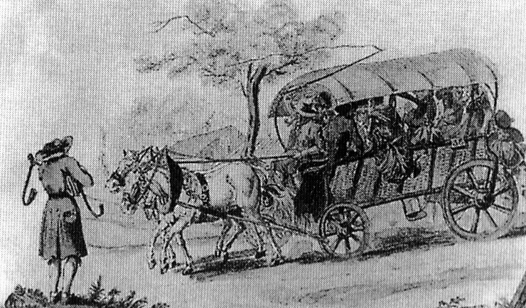 Viennese "Zeiserlwagen" around 1800. Early mass transit system